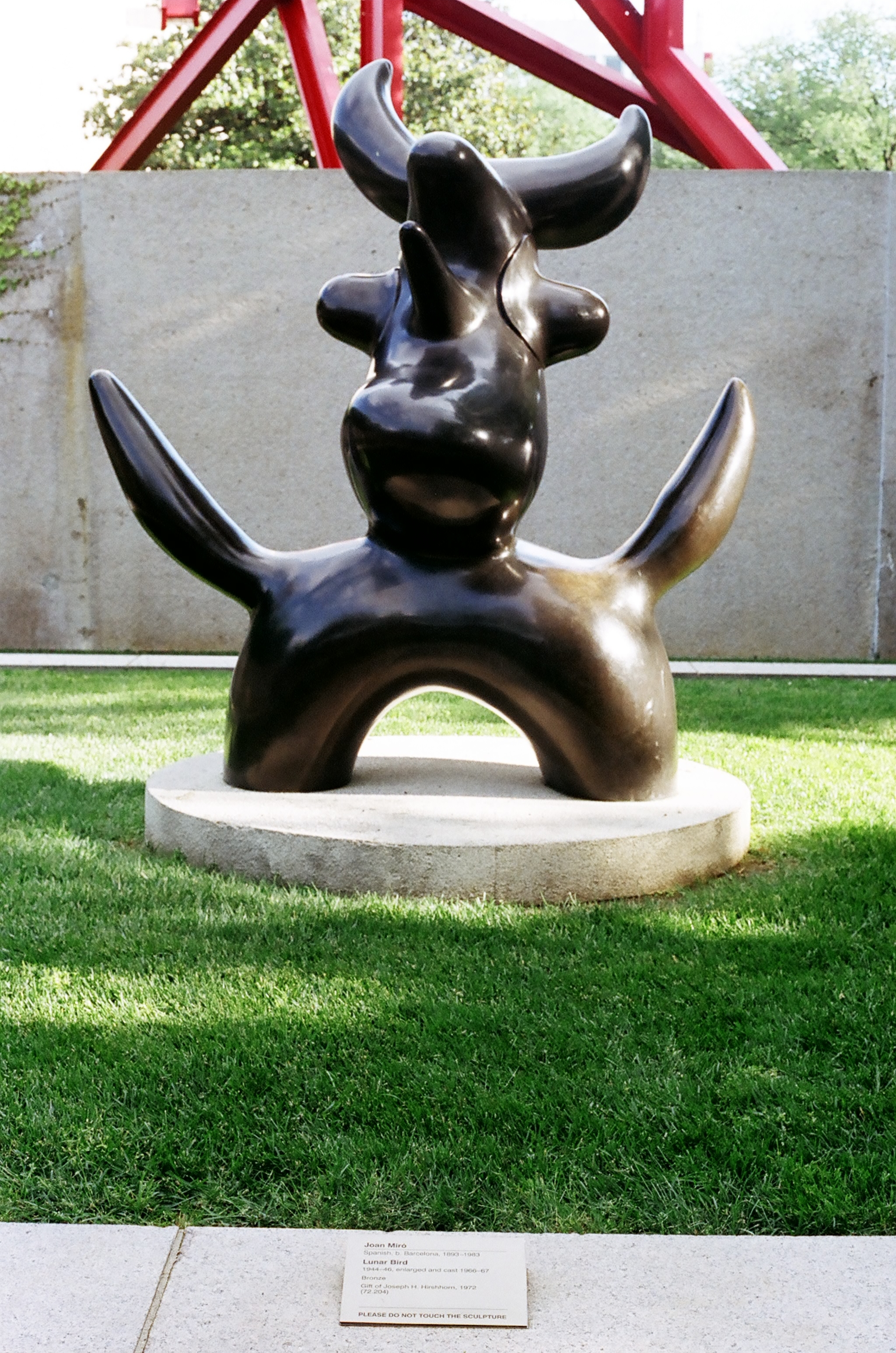 Joan Miró Spanish, b. Barcelona, 1893 - 1983 Lunar Bird, (1945/ENLARGED 1966, CAST 1967) Bronze 89 3/8 x 88 1/2 x 58 1/4 in. (207.0 x 204.9 x 147.8 cm.) Gift of Joseph H. Hirshhorn, 1972 (72.204 )